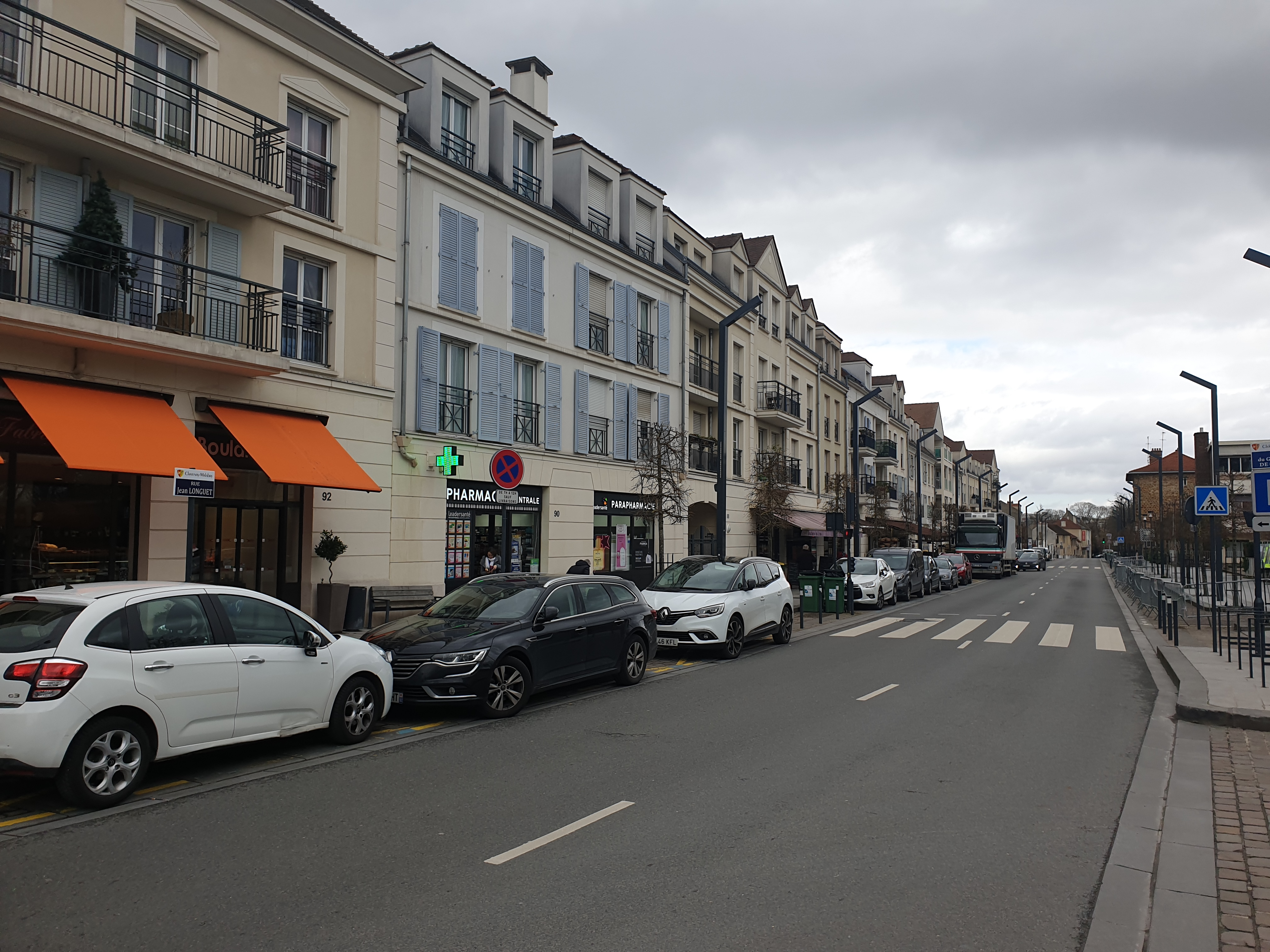 Jean Longuet street à Châtenay-Malabry - 2020-03-12.